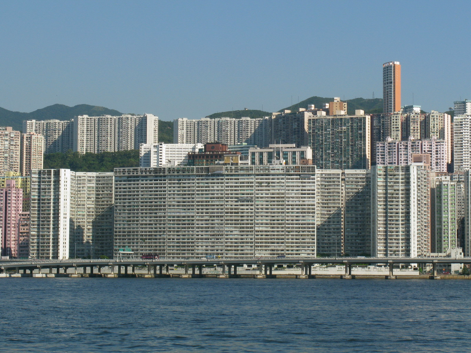 Provident Centre